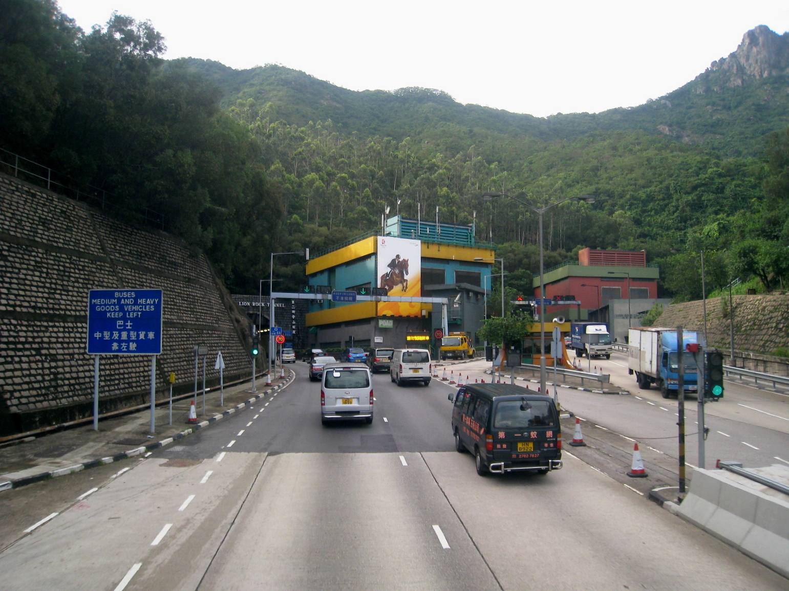 HK Lion Rock Tunnel Kowloon Section 獅子山隧道